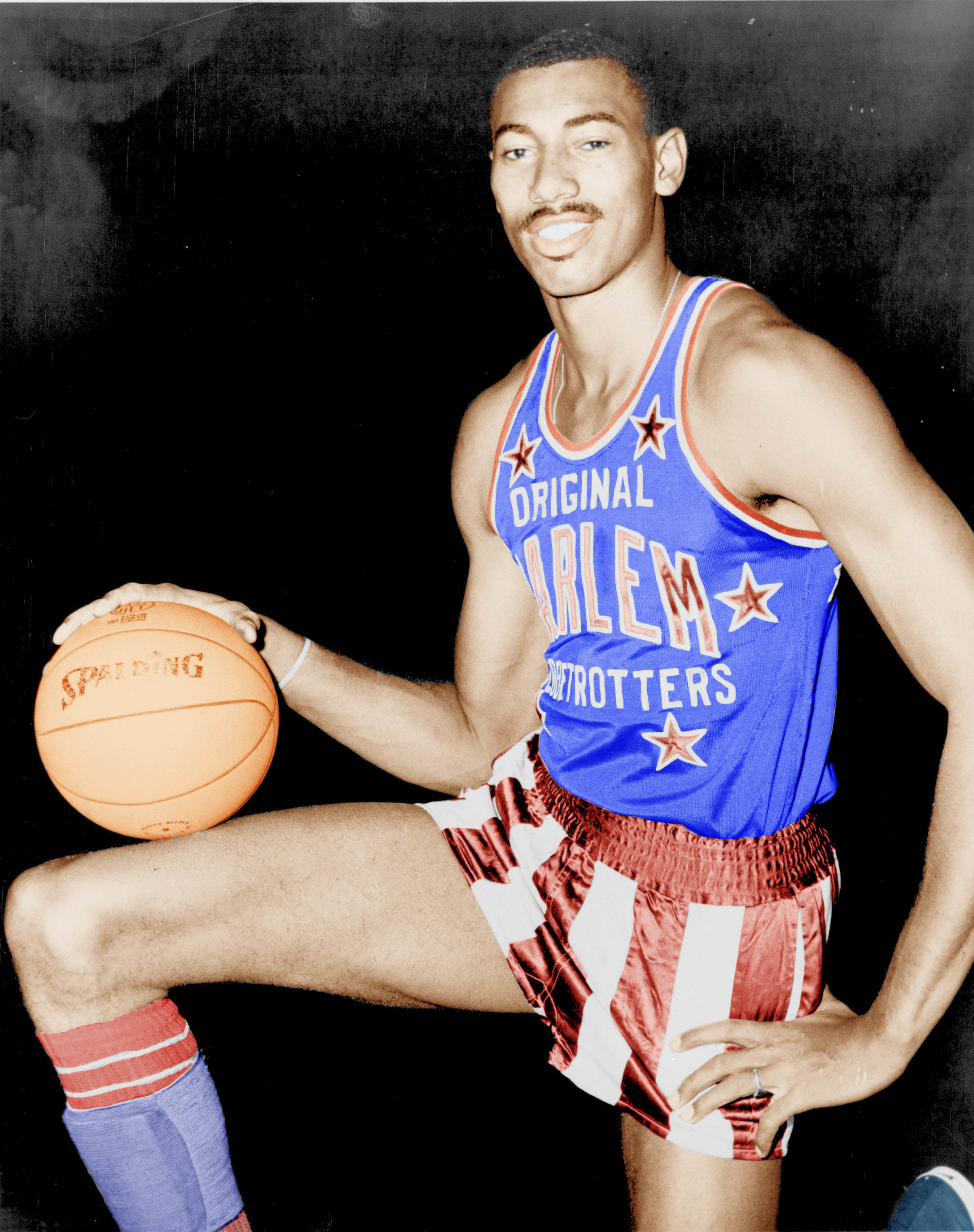 edited (colour) picture Image:Wilt Chamberlain.jpg Wilt Chamberlain, American basketball player wearing uniform of Harlem Globetrotters.